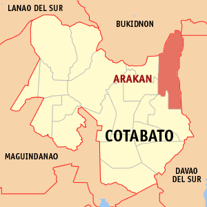 Map of the Cotabato showing the location of Arakan